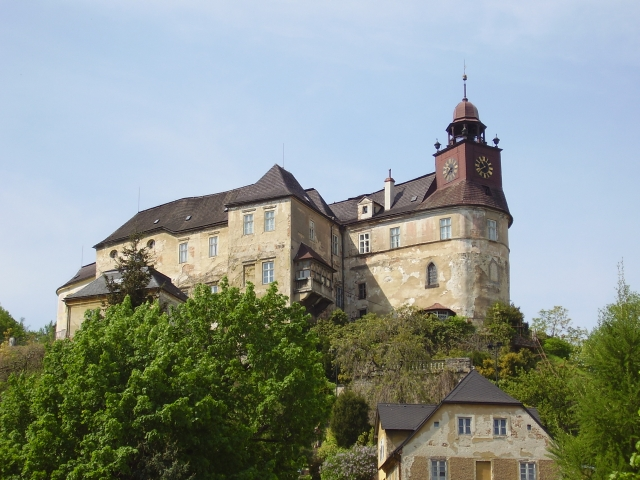 Javorník, Jeseník District, Czech Republic. Jánský Vrch Castle as seen from town square. Ślůnski: Pałac Jánský Vrch (mjym. Johannesberg) we sztadźe Javornik